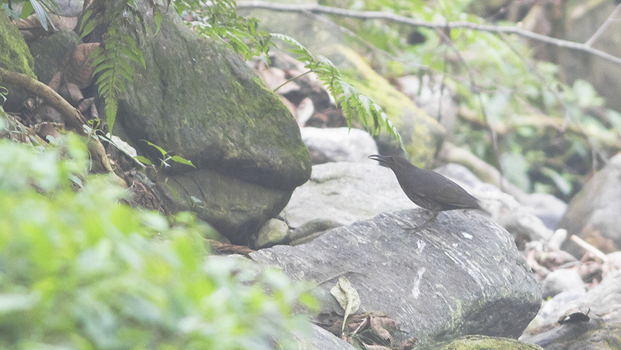 The species Long-billed Thrush had been photographed during the birding trip of GoingWild in West Sikkim, India on 20.02.2016.